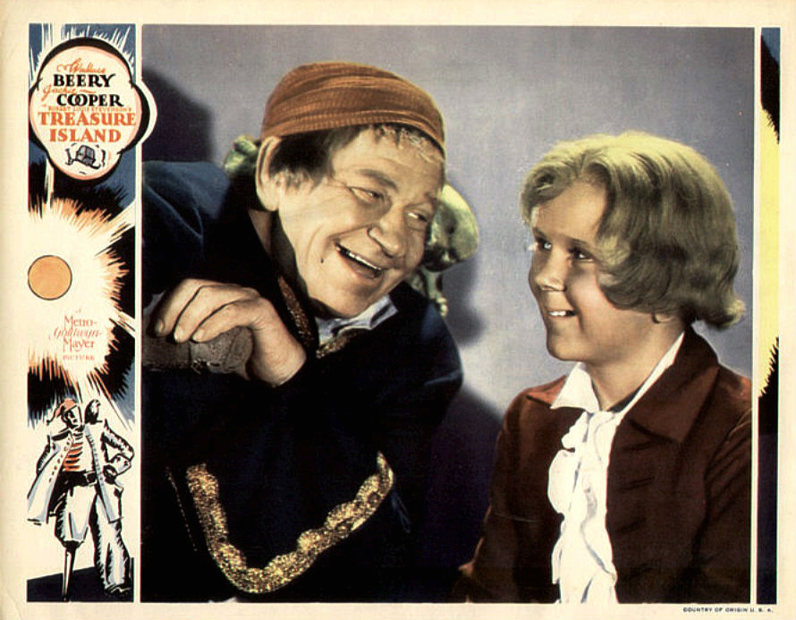 Lobby card for the 1934 film Treasure Island. The item has no copyright markings on it as can be seen in the links above. At bottom right is Country of origin USA.